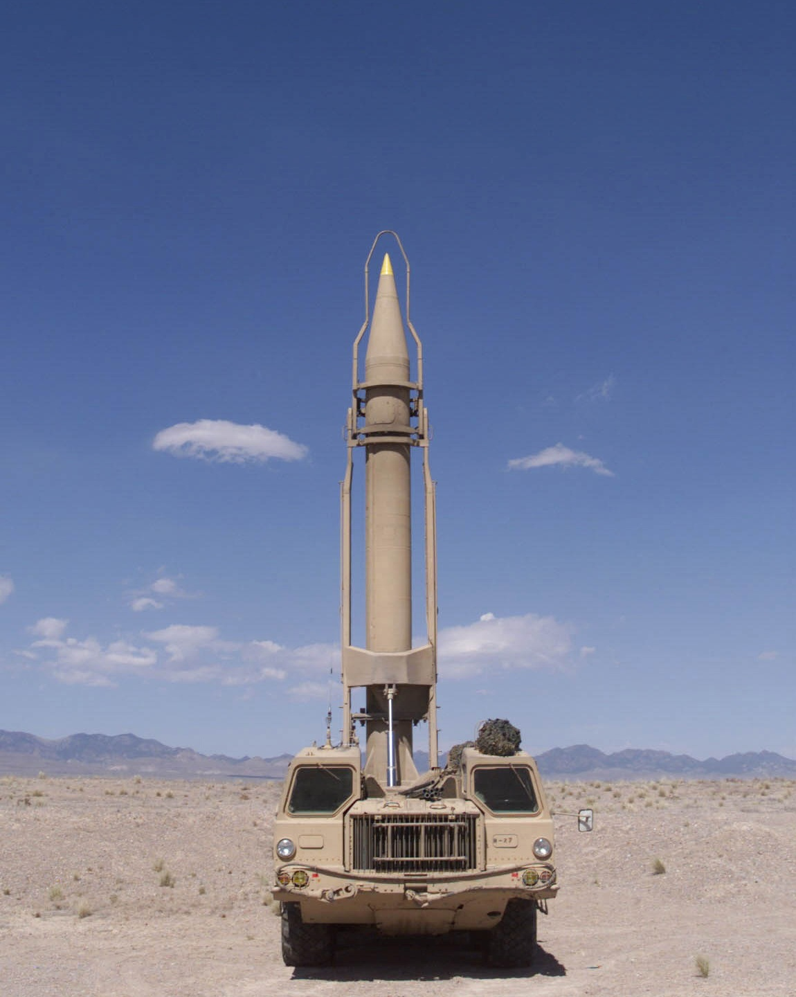 Straight on medium shot of a Soviet made MAZ-543P-TEL SCUD Missile Launcher that simulates an enemy threat for US and Allied pilots during Roving Sands, a joint exercise at Tonopah Test Range, Tonopah, Nevada, June 16th, 2000.